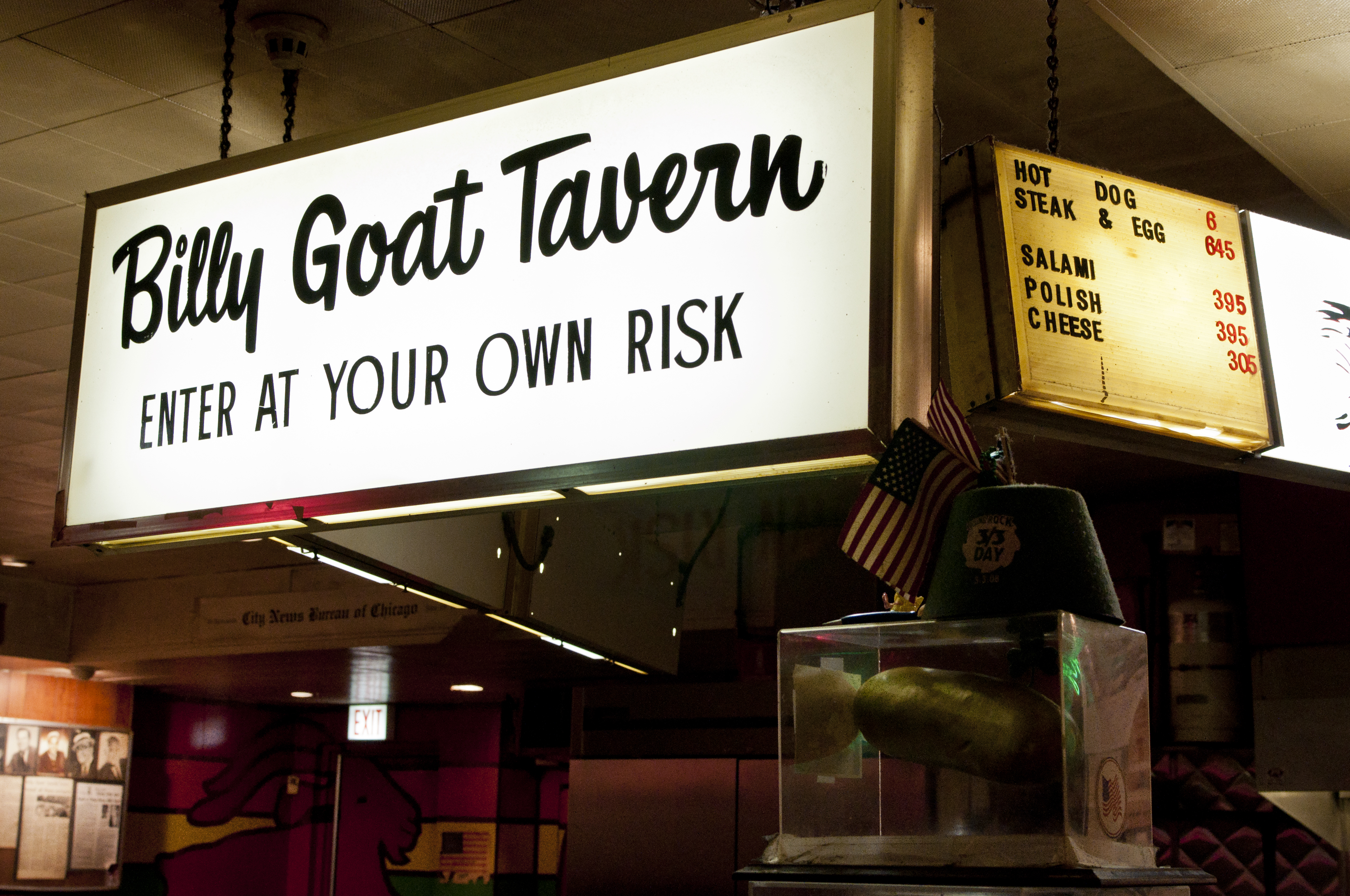 The Billy Goat Tavern in Chicago